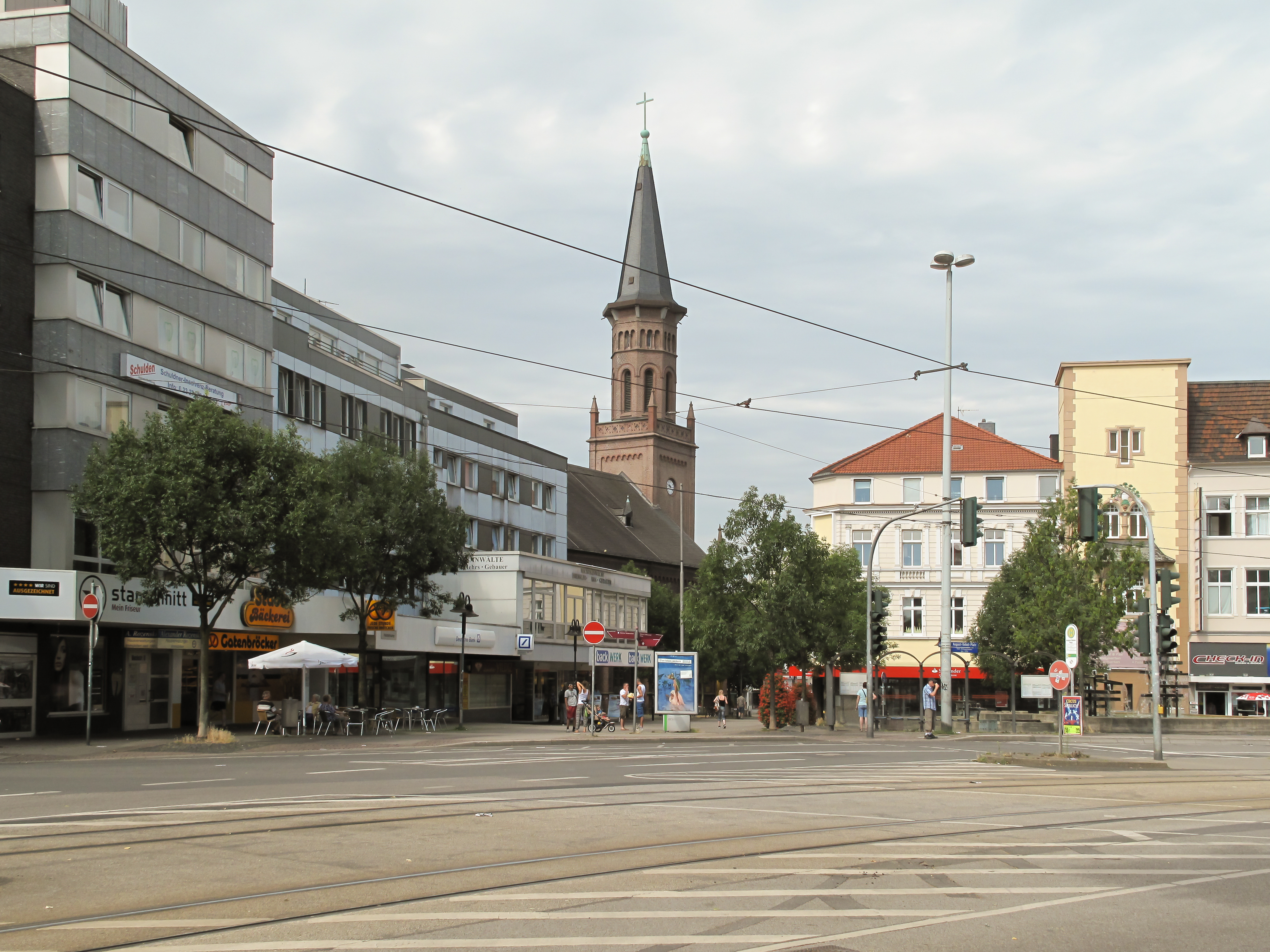 Wattenscheid, view to a street (Bahnhofstrasse) with church (Friedenskirche) This is a photograph of an architectural monument.